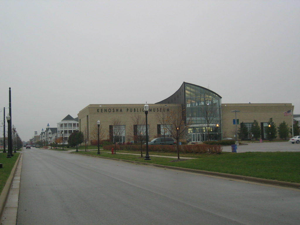 Kenosha Public Museum